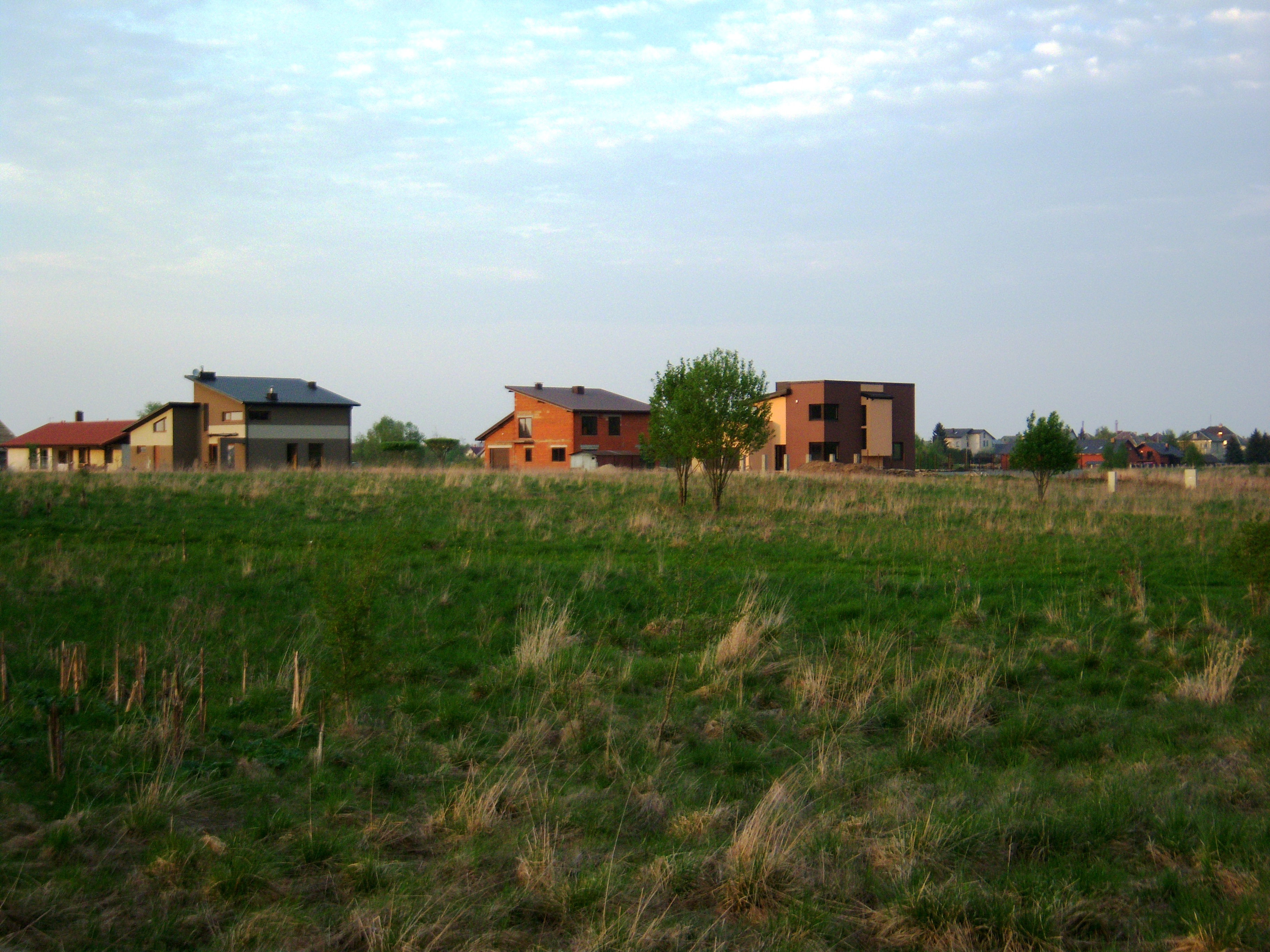 Armaniškiai, Kaunas. Lithuania